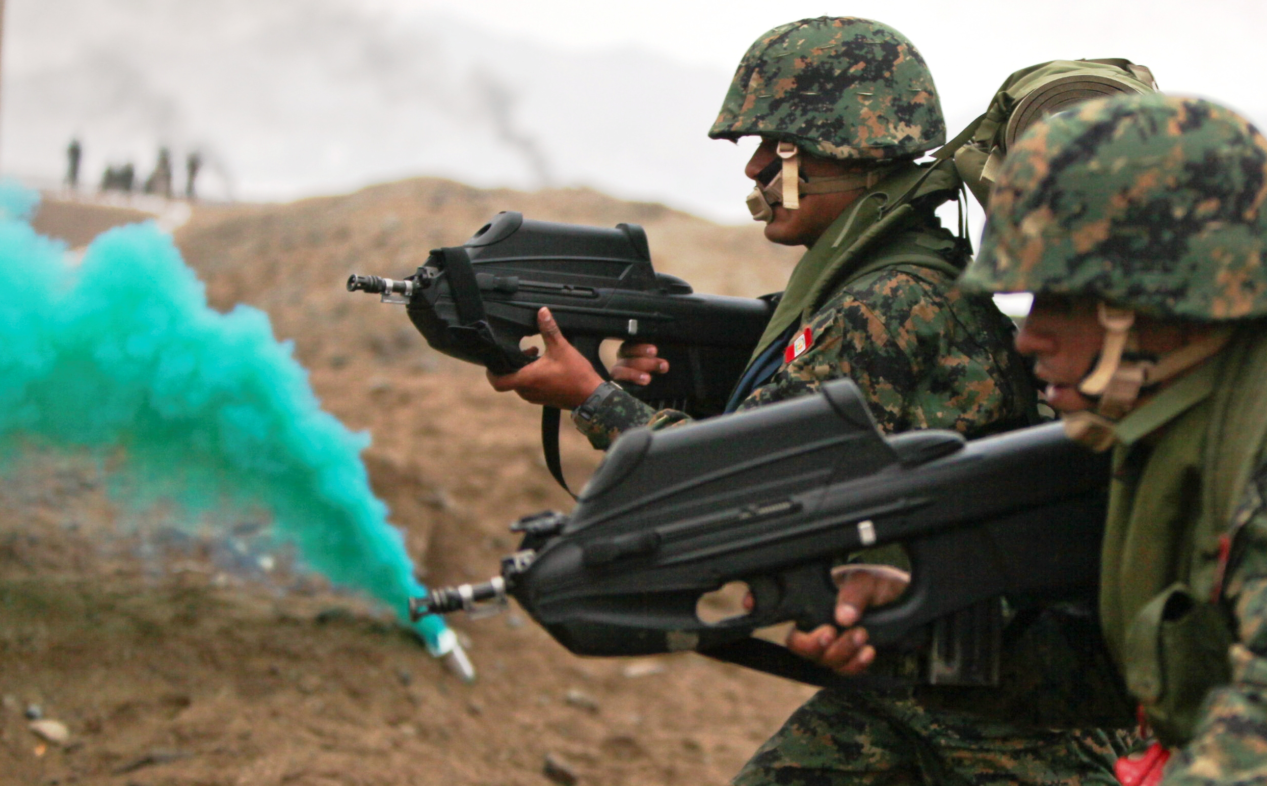 Peruvian naval infantrymen carrying F2000 assault rifles assault a beach with service members from 10 nations during a large-scale multinational amphibious beach assault in Ancon, Peru, July 19, 2010. U.S. Marines were deployed in support of operation Partnership of the Americas/Southern Exchange, a combined amphibious exercise with maritime forces from Argentina, Mexico, Peru, Brazil, Uruguay and Colombia.